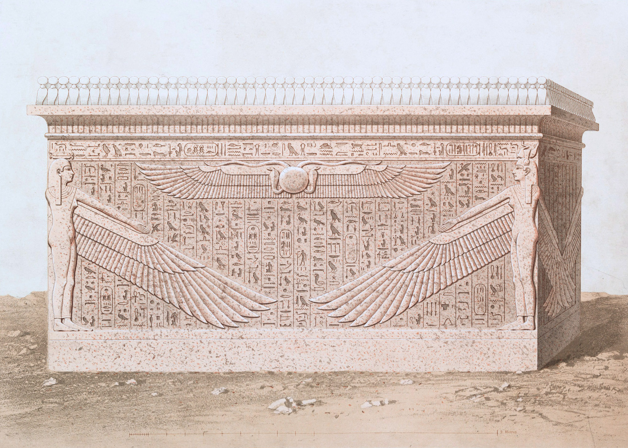 Sarcophagus of king Ay Prisse D'Avennes "Histoire de l'art égyptien: d'après les monuments ; depuis les temps les plus reculés jusqu'à la domination romaine" Volume 1, , plate 6 (Paris, 1878)